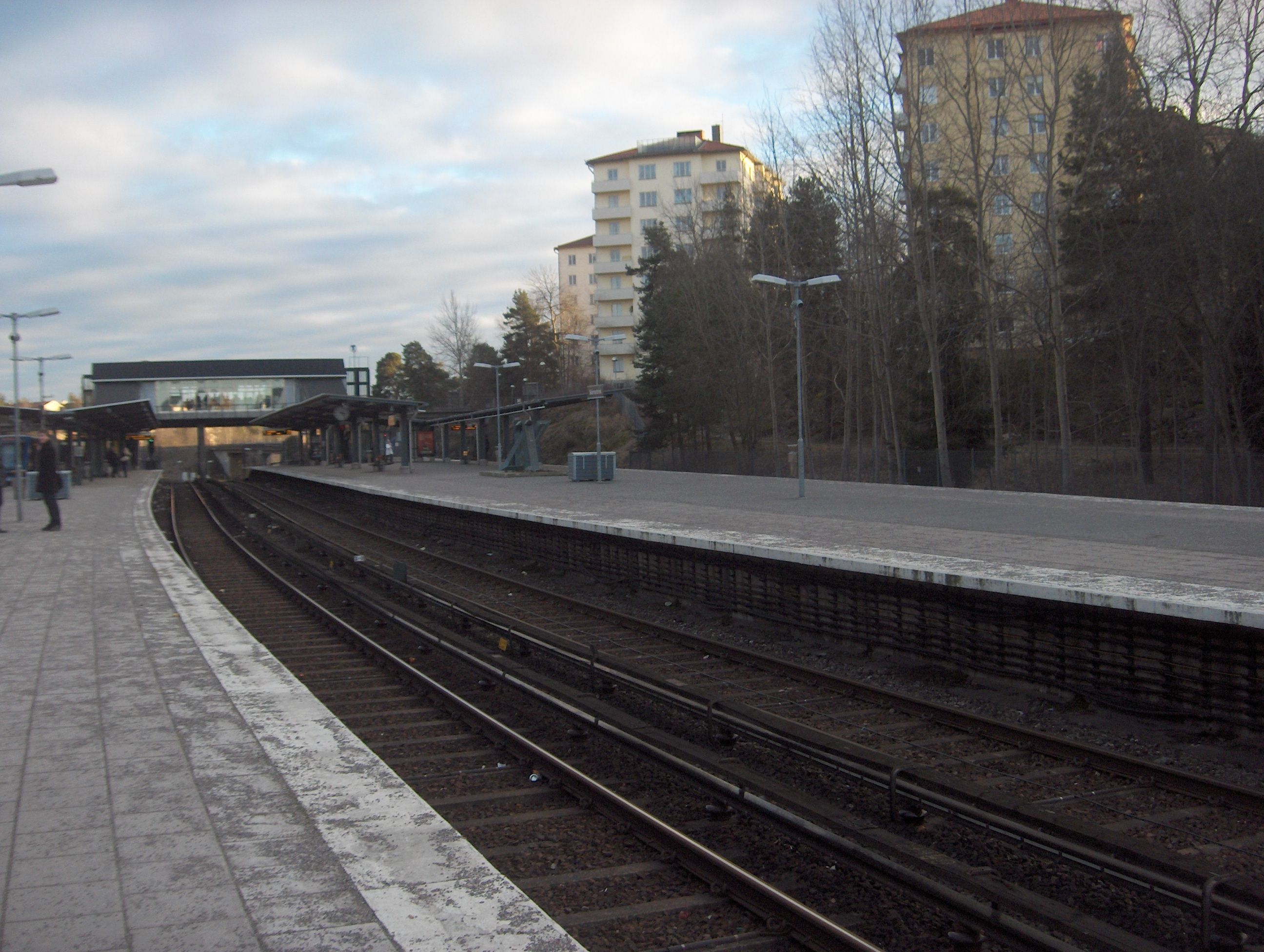 The Stockholm Metro station in Skärmarbrink, photographed by me.